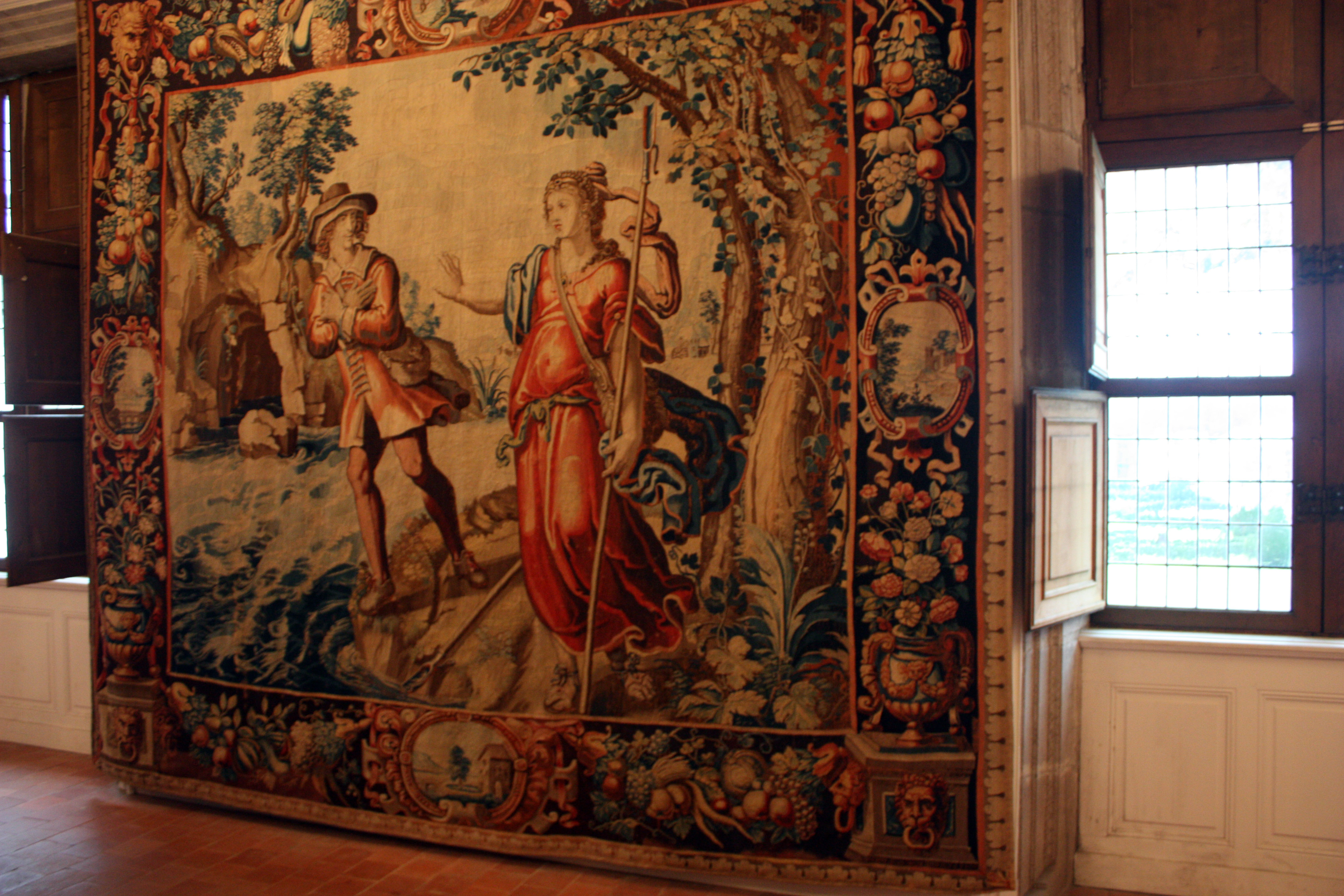 "Be my witness, he said, oh dear cord, rather than breaking one of the nodes of my affection, I preferred to lose his life, so that when I am dead, and that this cruel sees you for be on me, thou assured that there is nothing in the world can be more loved than I like it, nor worse acknowledged lover that I am. " L'Astrée Honoré d'Urfé